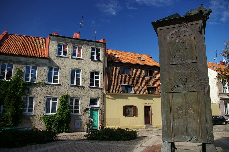 Old Town Area of Klaipeda with sculpture "Sights of the city", Lithuania